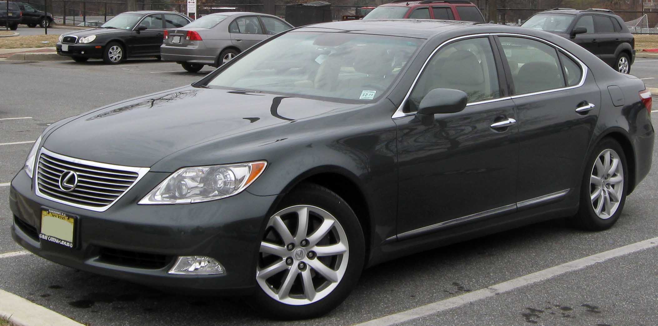 2007-2009 Lexus LS460 photographed in College Park, Maryland, USA.